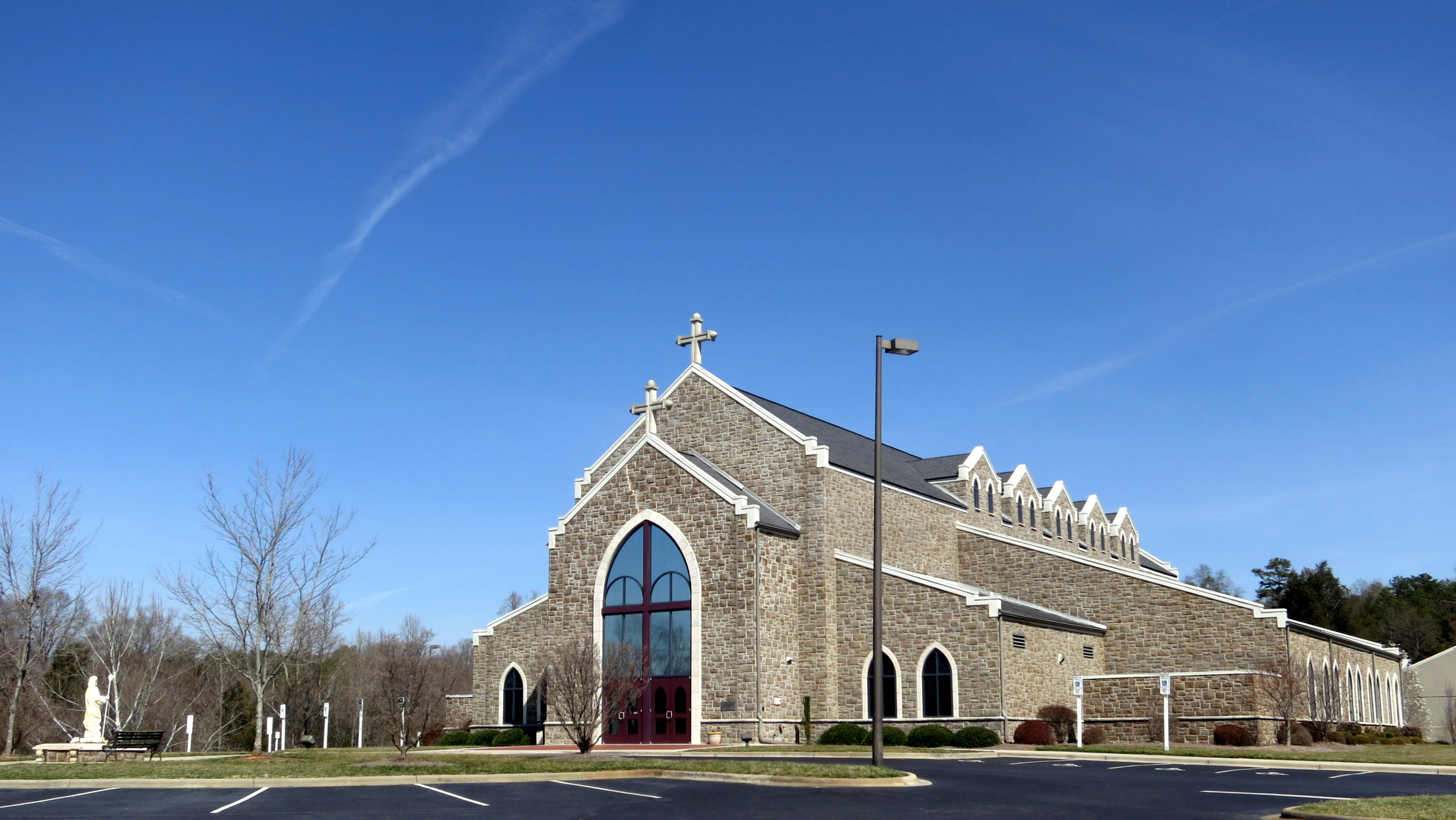 Saint James the Greater Catholic Church (Concord, North Carolina) - exterior